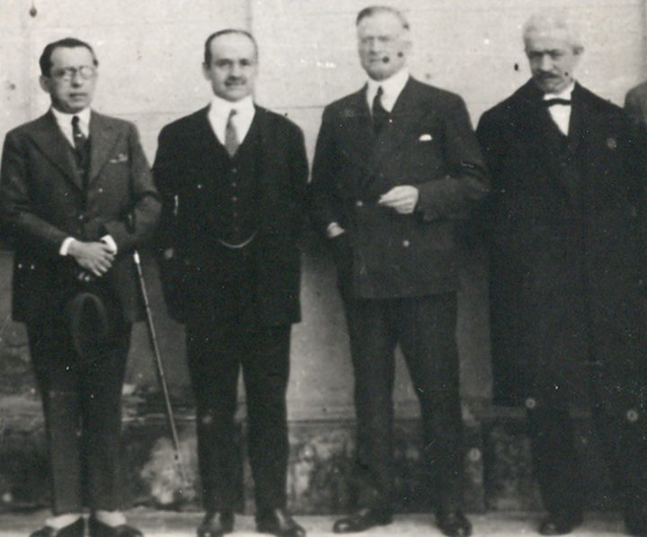 Fotografía que muestra al gobernador Miguel Campero, al rector de la Universidad Nacional de Tucumán, Juan B. Terán, a José Graciano Sortheix y al naturalista Miguel Lillo. Año 1924.